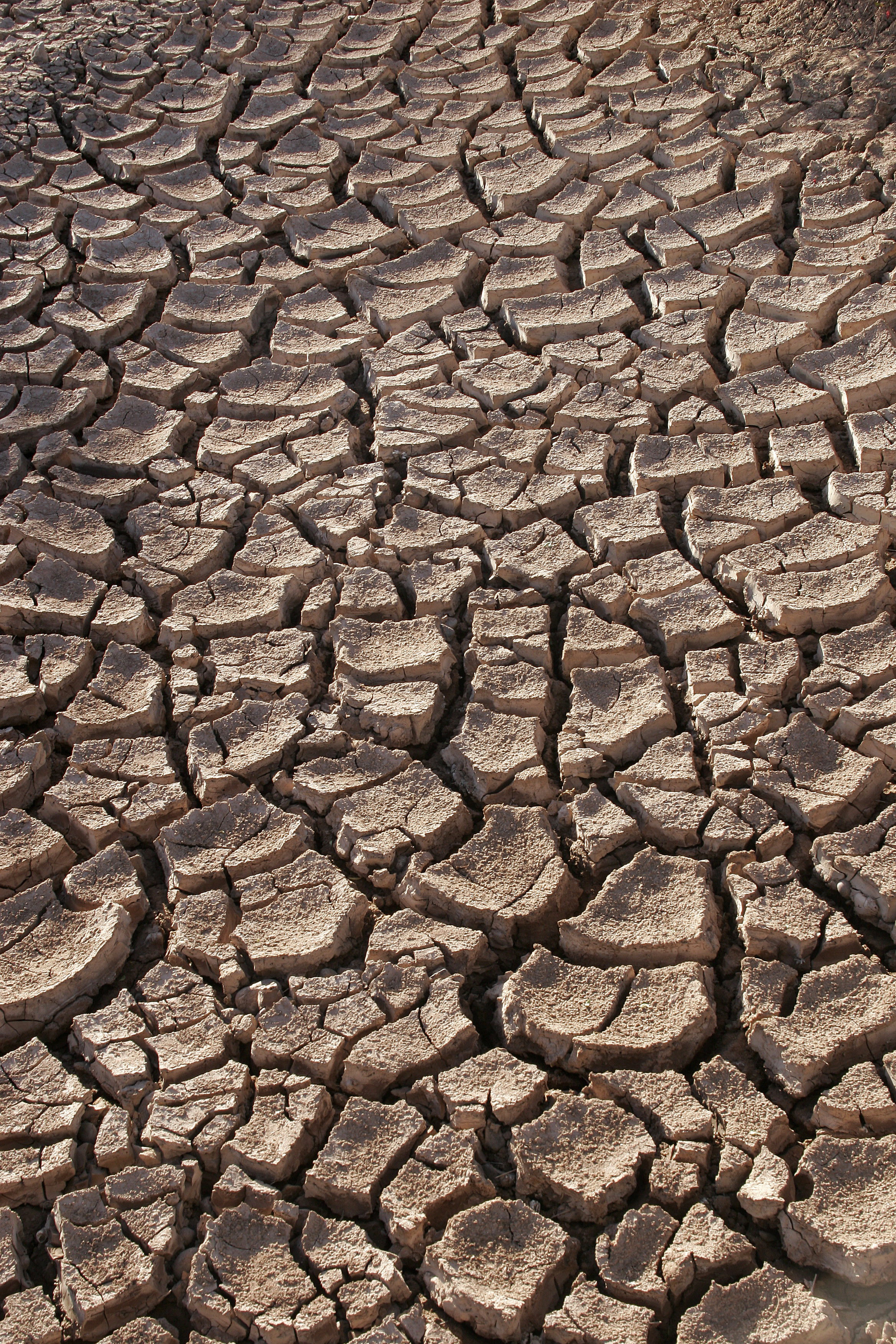 Dry ground in the Sonoran Desert, Sonora,Mexico.